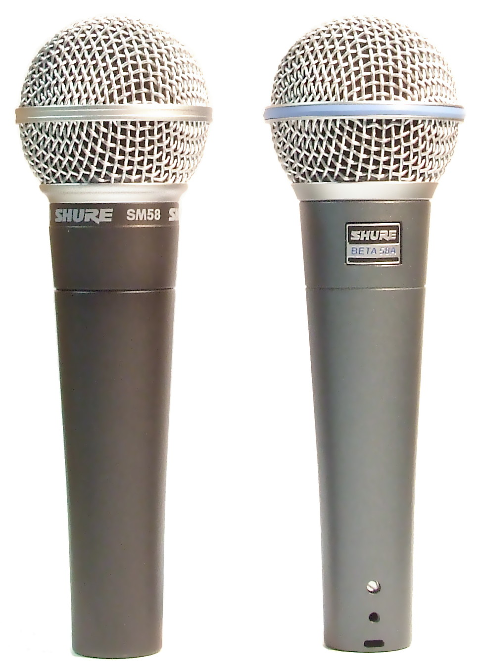 The Shure SM58 (left) and Beta58a microphones